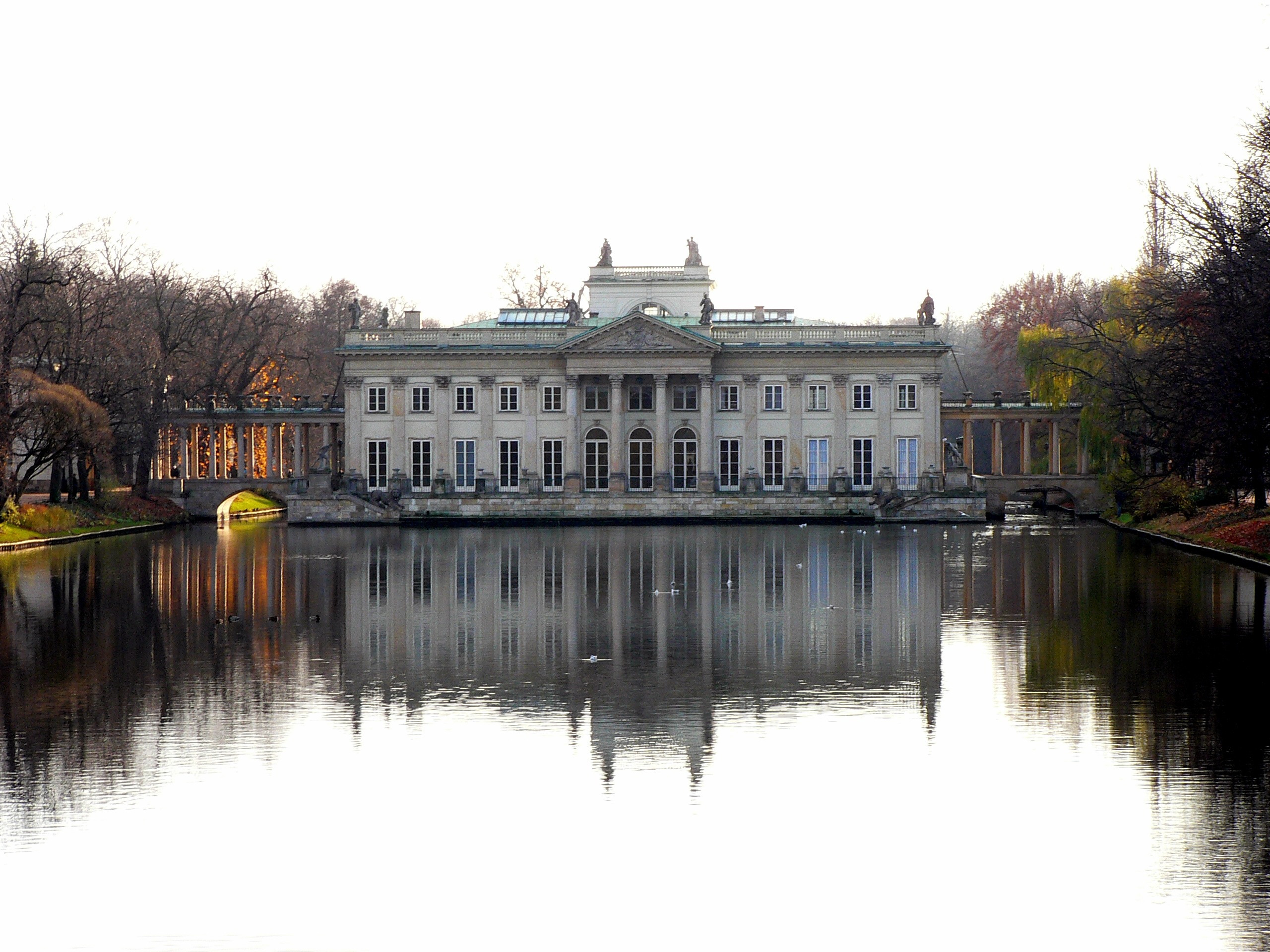 Łazienki Palace, Warsaw, Poland